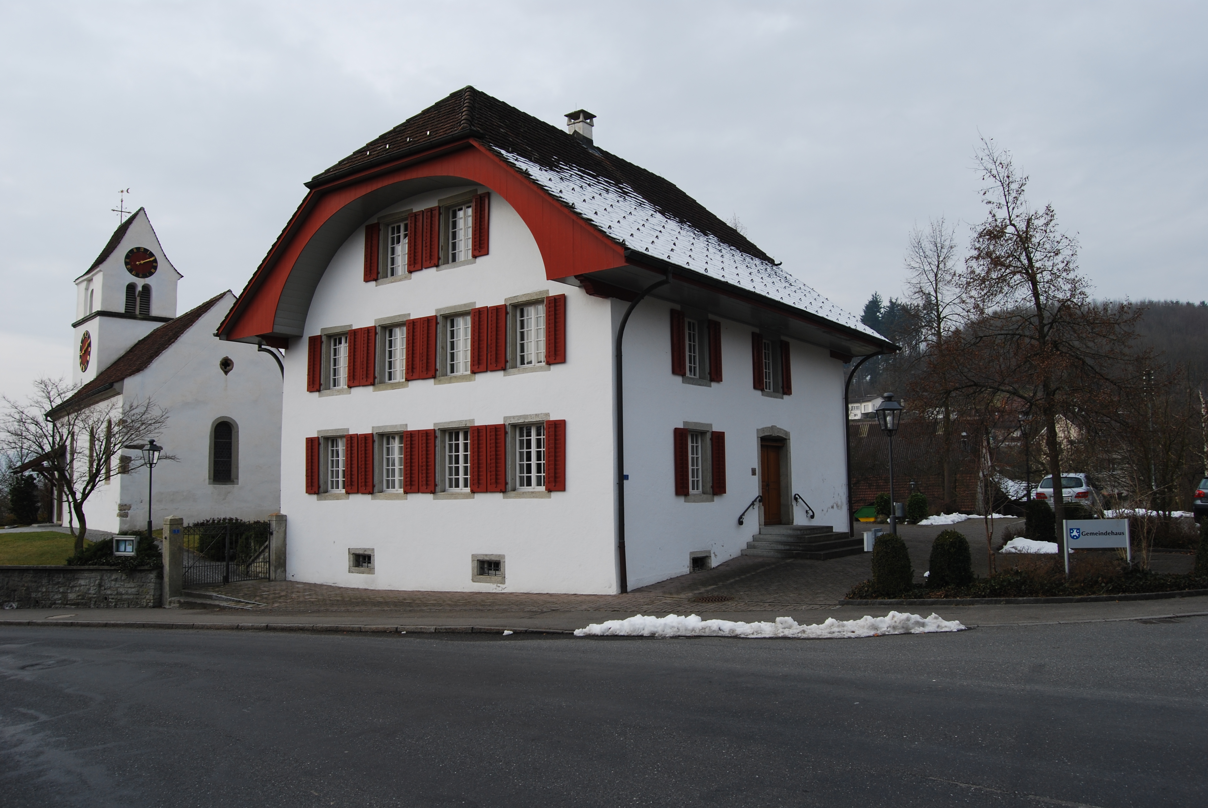 Municipal administration and church of Egliswil, canton of Aargau, SwitzerlandEsperanto: Komunuma domo kaj preĝejo de Egliswil, Kantono Argovio, Svislando